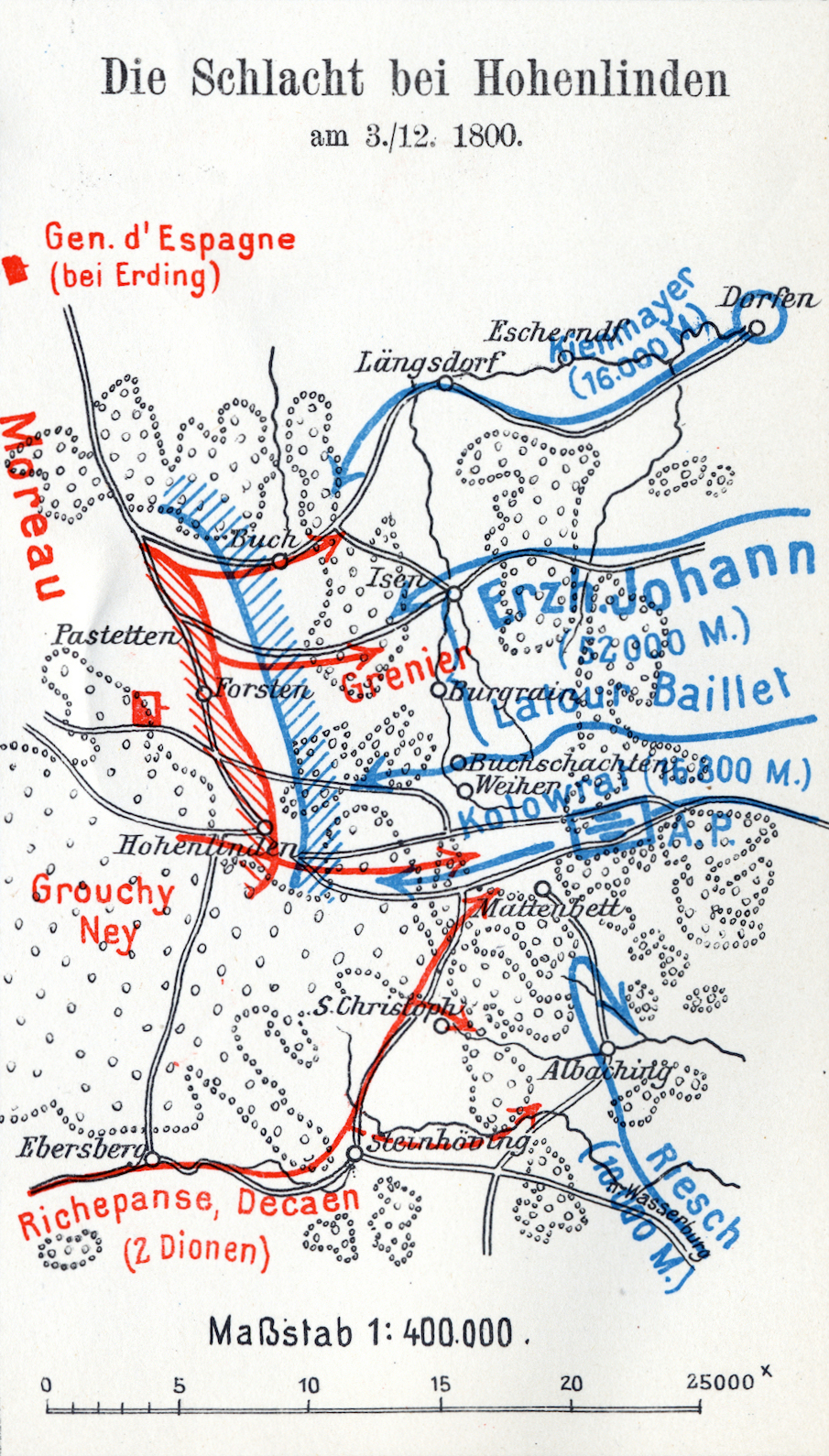 A plan of the Battle of Hohenlinden, from Schirmer's Kriegsgeschichtlicher Atlas of 1912